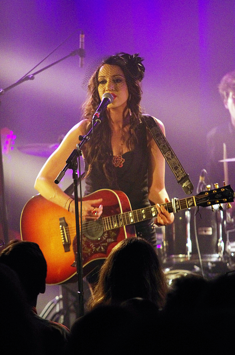 Lindi Ortega Les Nuits de l'Alligator, La Maroquinerie, Paris 2012